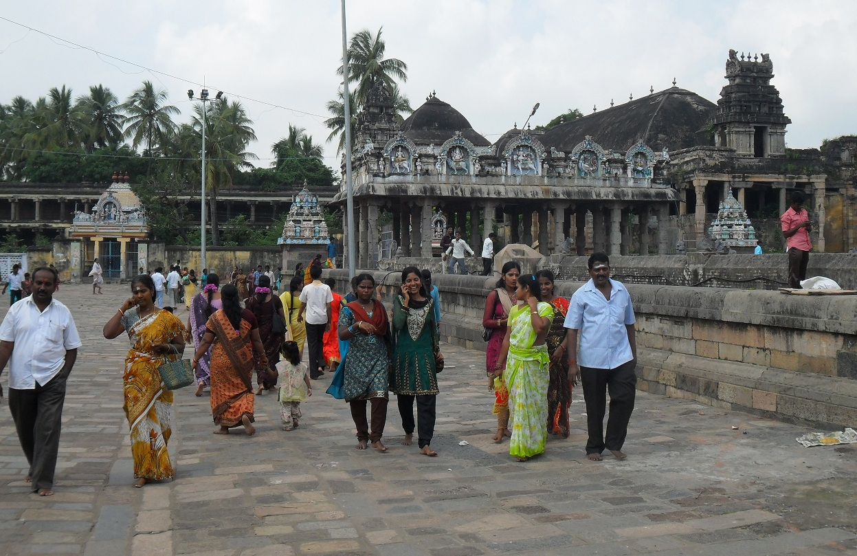 People of South India, Tamil Nadu